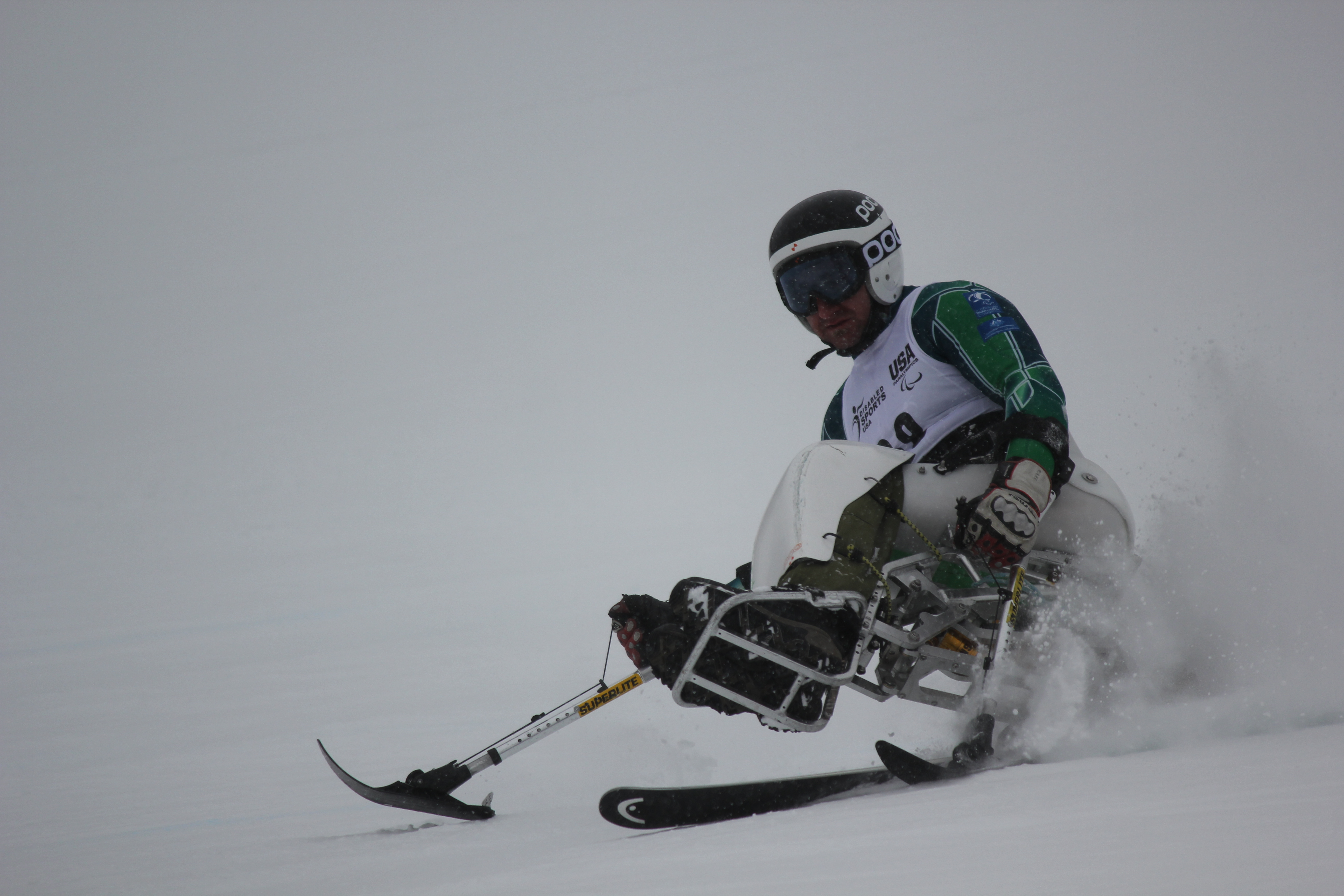 10 December 2012 Australian para-alpione skier at IPC Nor-Am Cup in the Super G.